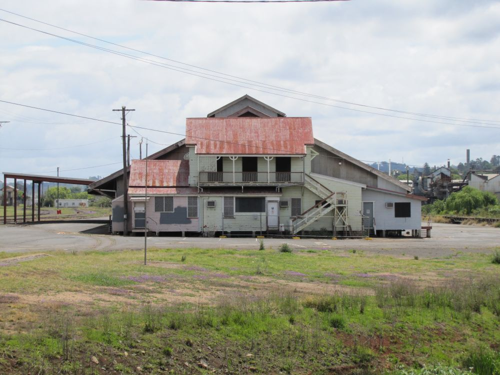 Toowoomba Railway Station, Goods Shed (2012)